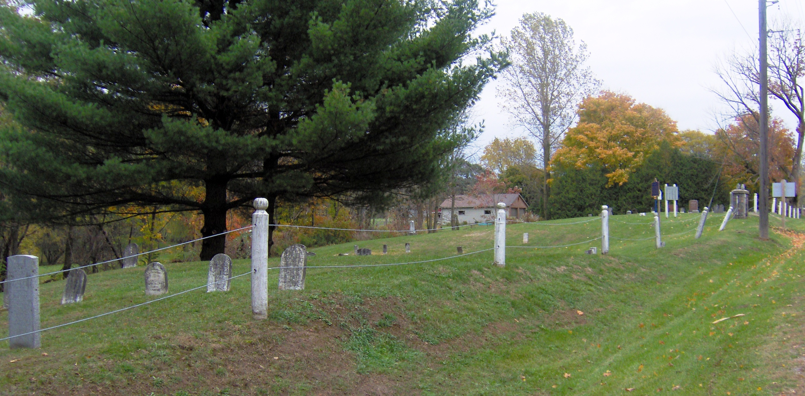 Quaker Street Pioneers Burying Ground, and United Empire Loyalists. Norwich Ontario, Canada